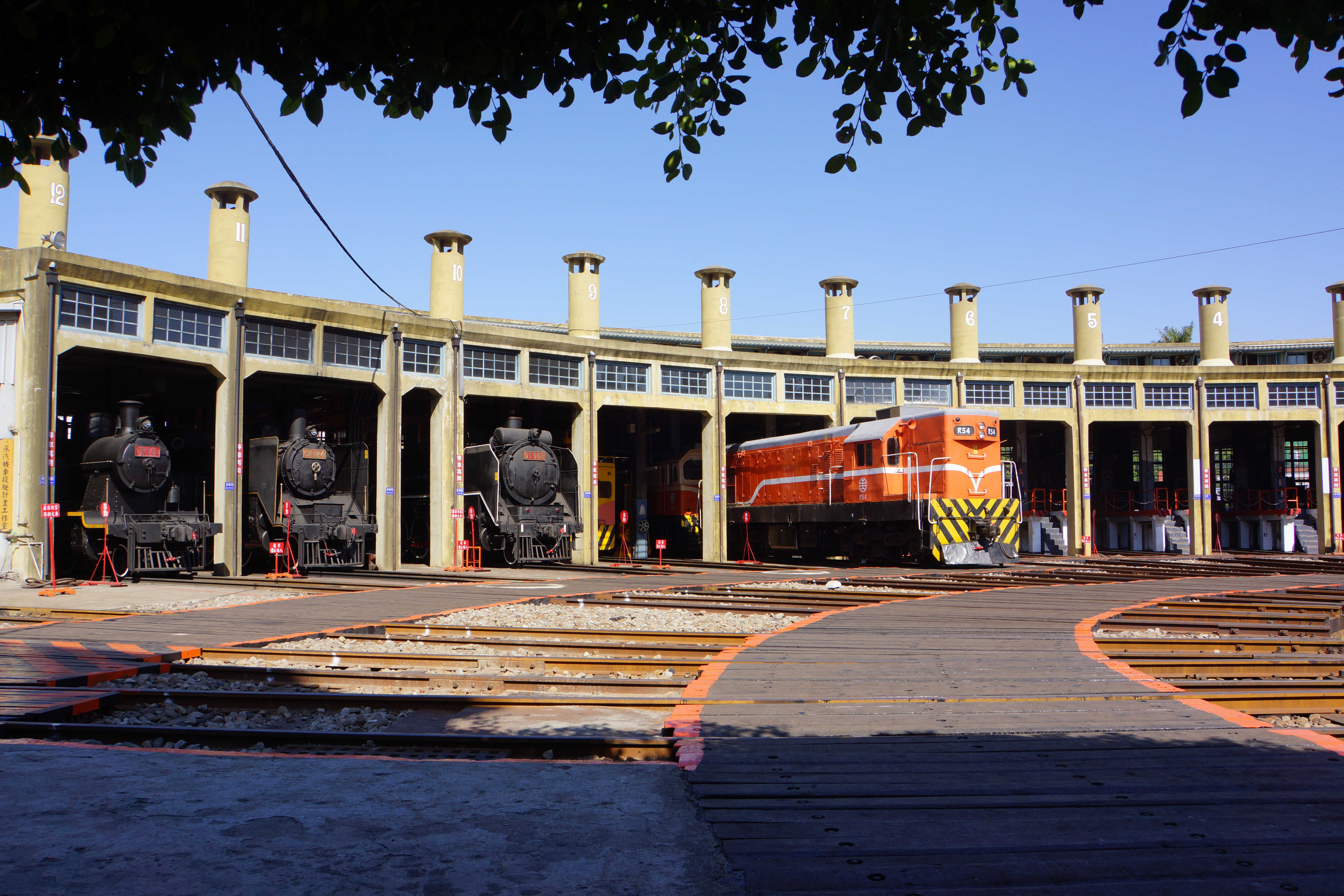 扇形車庫 Fan-shaped Garage